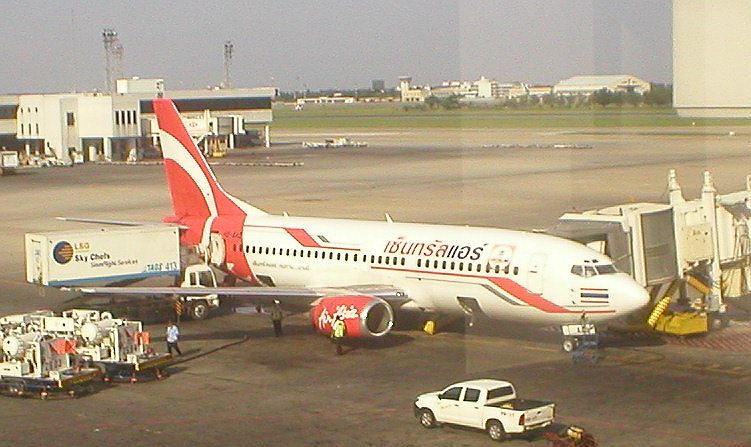 A Thai AirAsia Boeing 737-300 in Central Air livery at Bangkok Airport April 13th 2006 Siren-Com 11:16, 17 April 2006 (UTC)